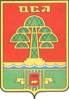 Coat of Arms of Osa, Perm krai, Russia, 1989